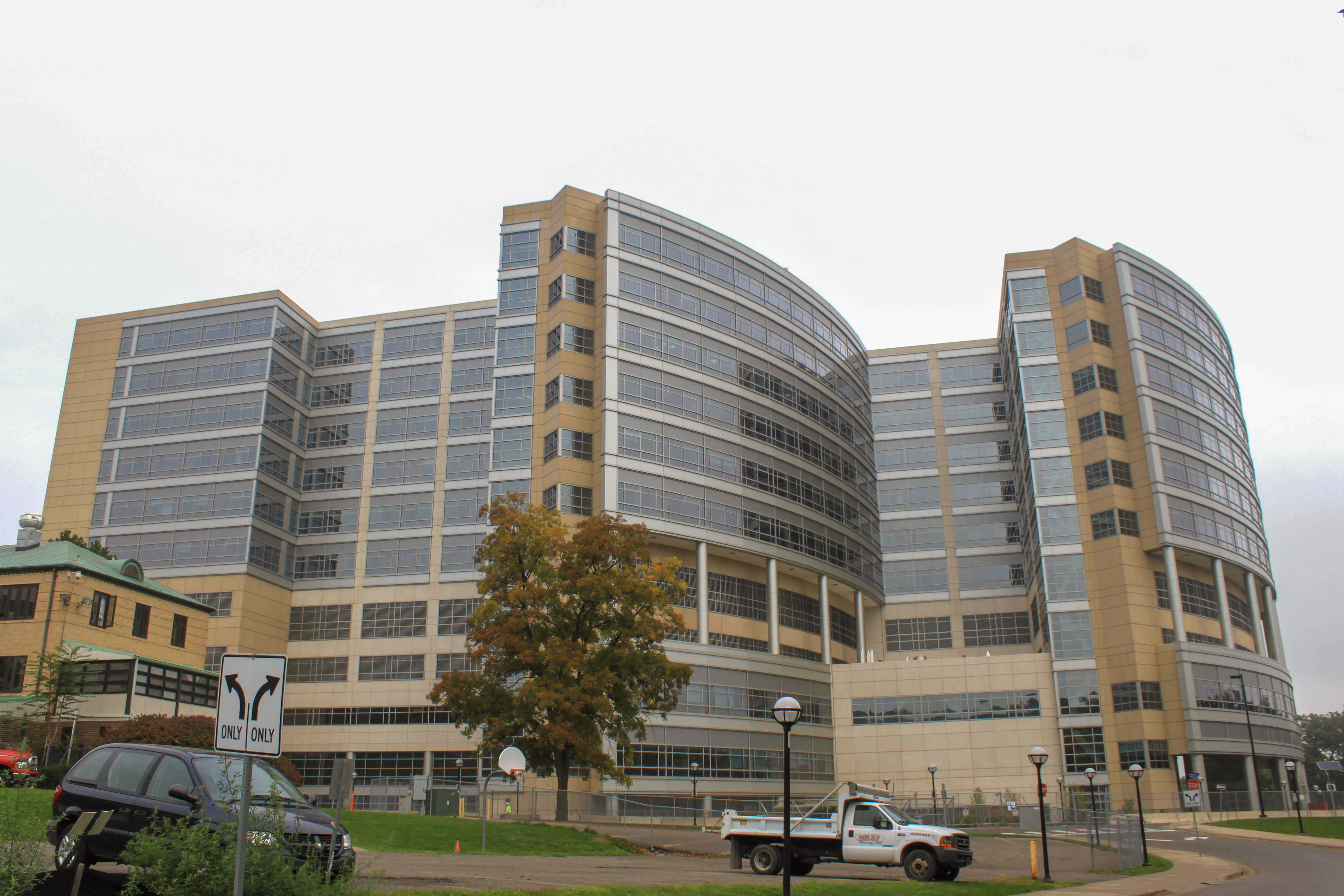 The new C.S. Mott Children's & Women's Hospital, East Medical Center Drive, Ann Arbor, Michigan